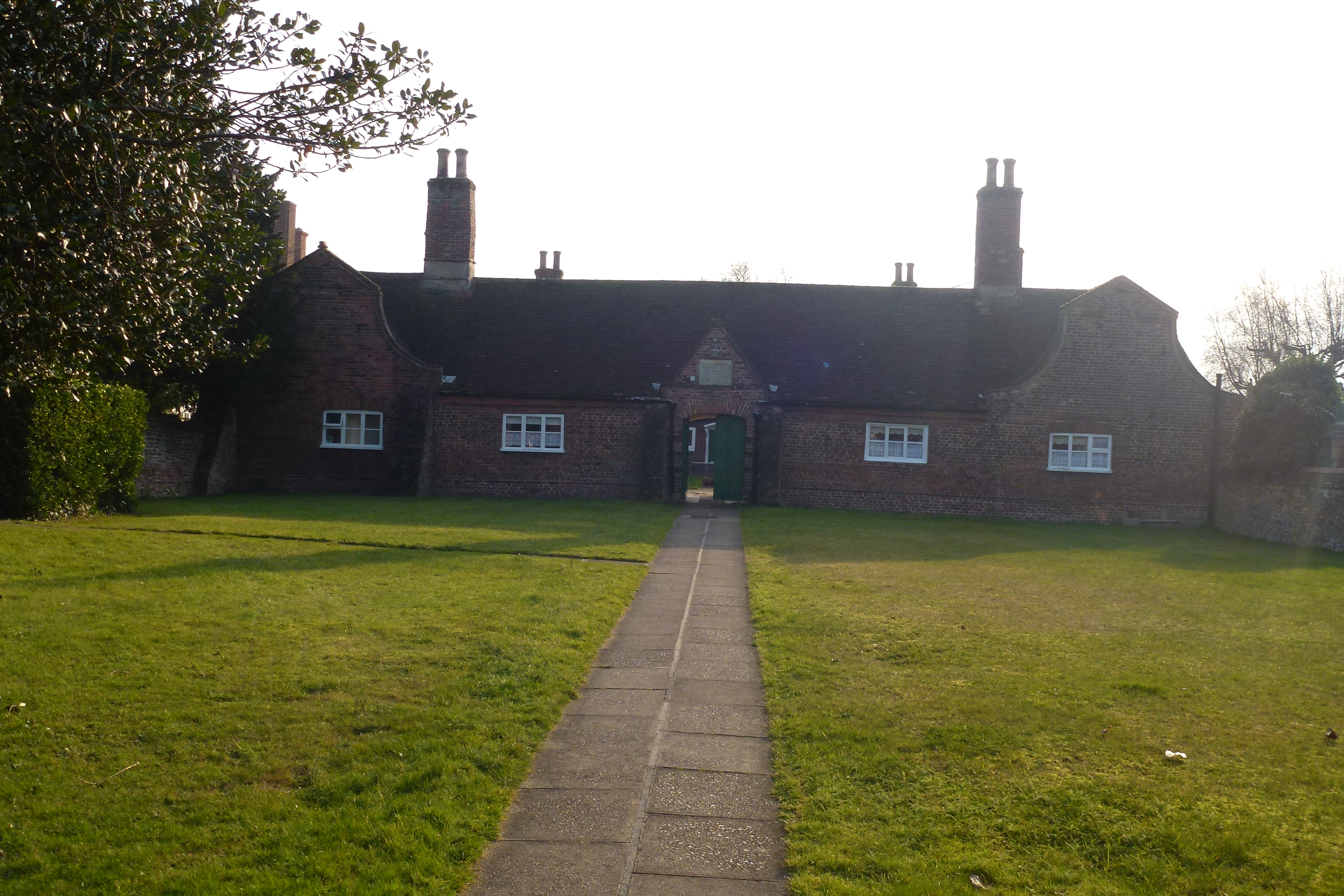 13th century almshouses in Gaywood.